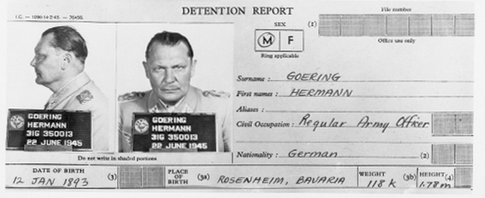 Detention report and Mugshots of Hermann Göring